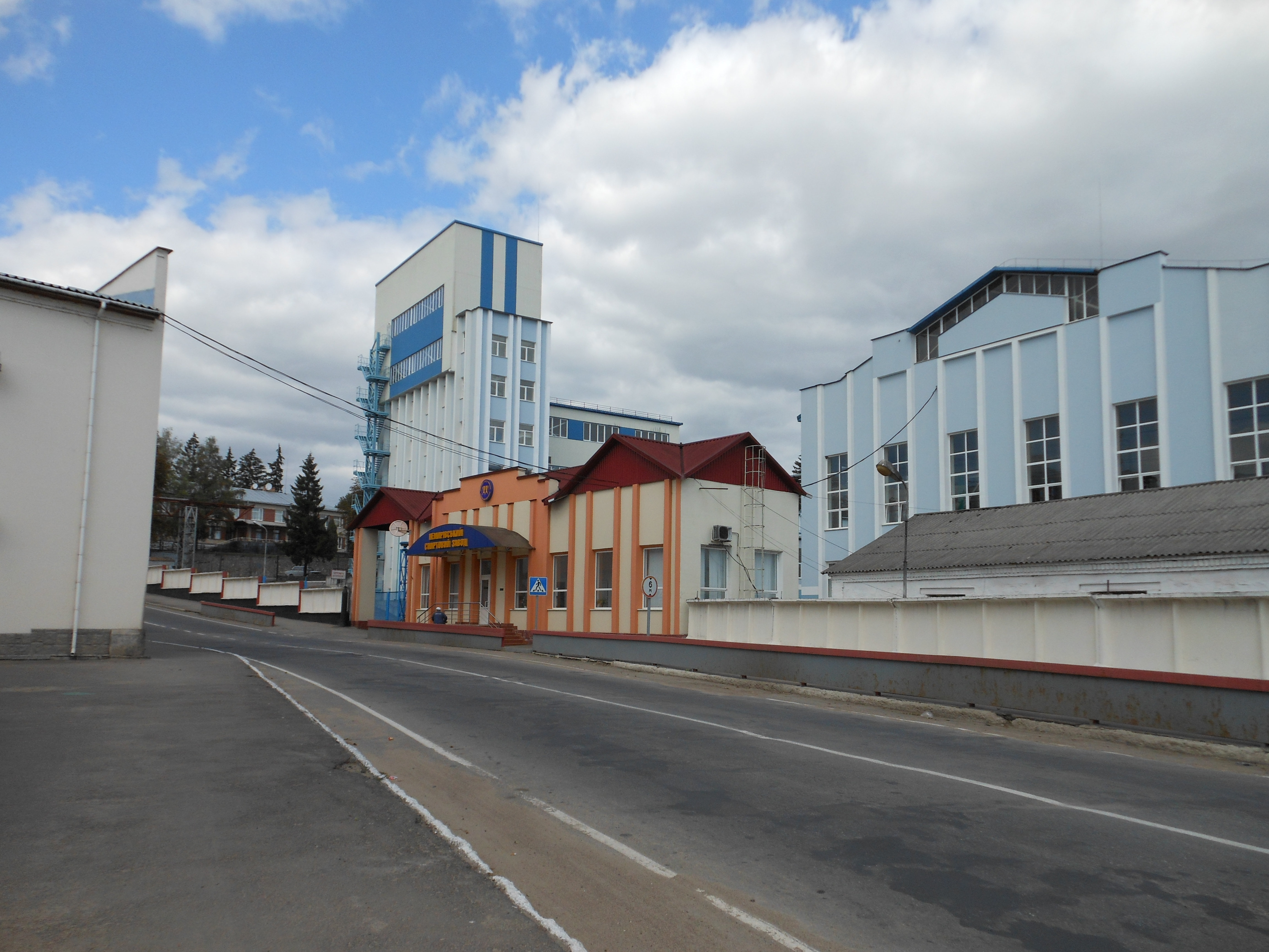 Nemirovsky Alcohol Plant